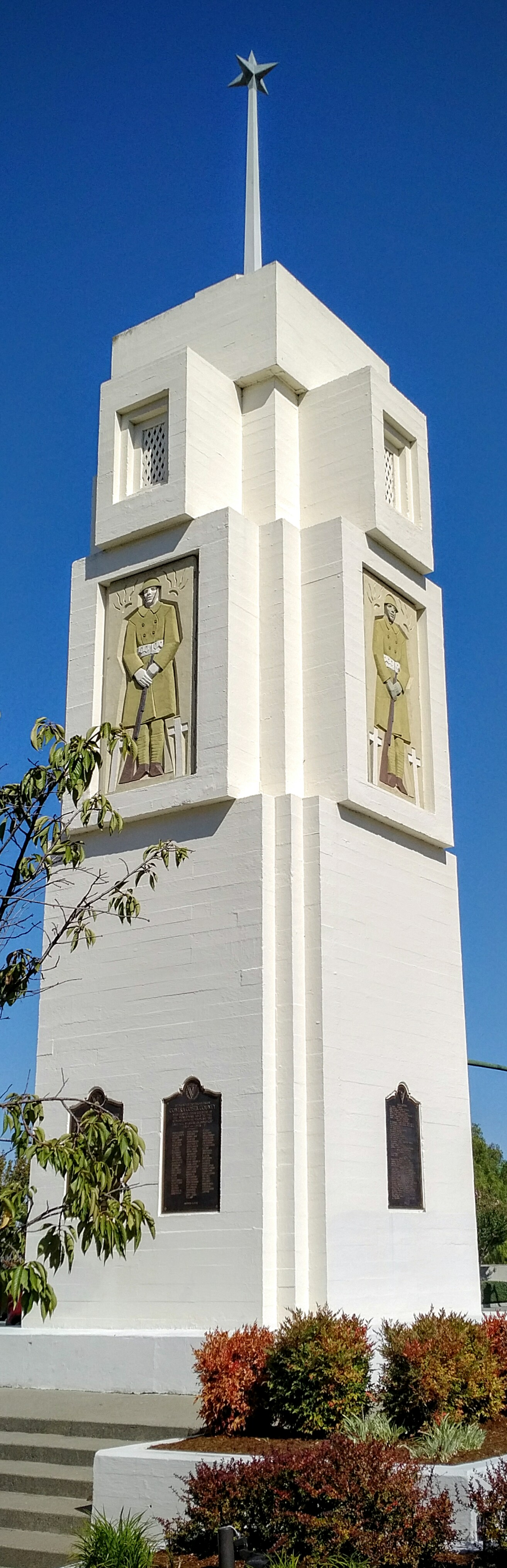 Monument